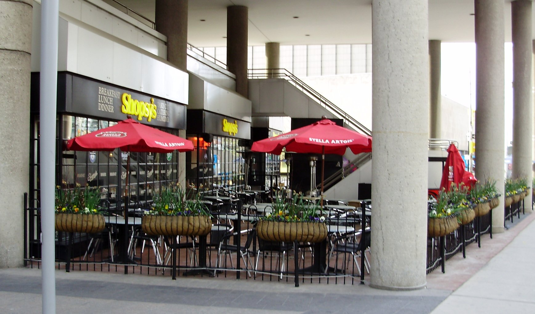 A Shopsy's delicatessen restaurant at Yonge and Front Streets in Toronto, Ontario. Taken for inclusion with the relevant article on .